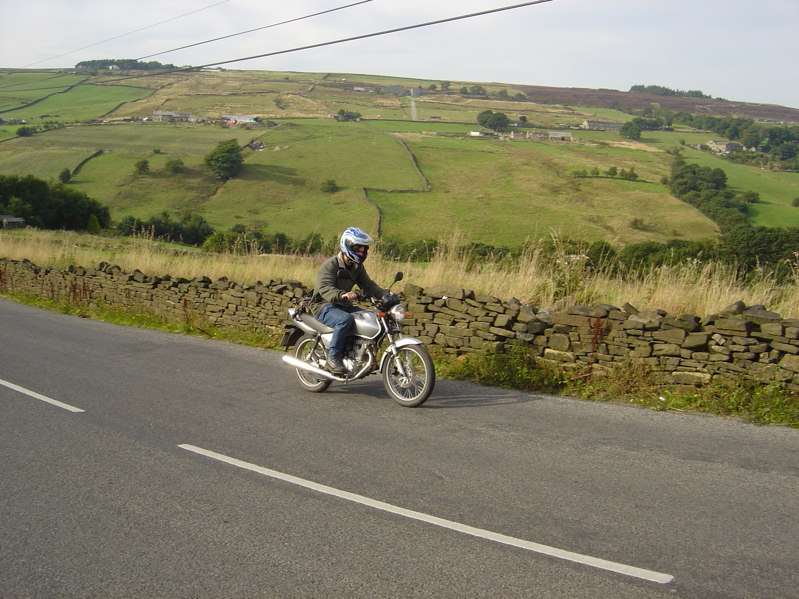 Honda CG125 with front wheel disc brake, in Stanbury, West Yorkshire. Photograph by user:SpaceMonkey